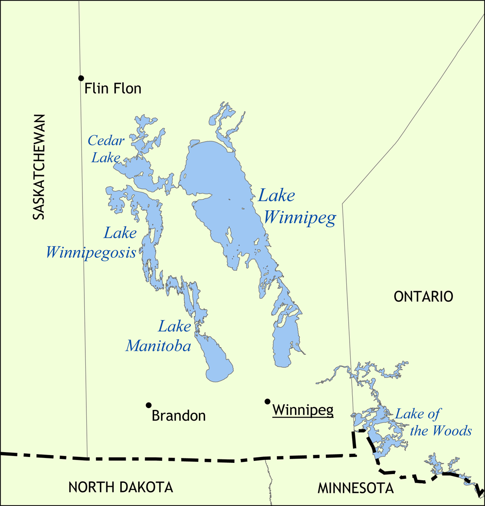 Map showing the location of Lake Winnipeg, Lake Manitoba, and Lake Winnipegosis in Manitoba, Canada.